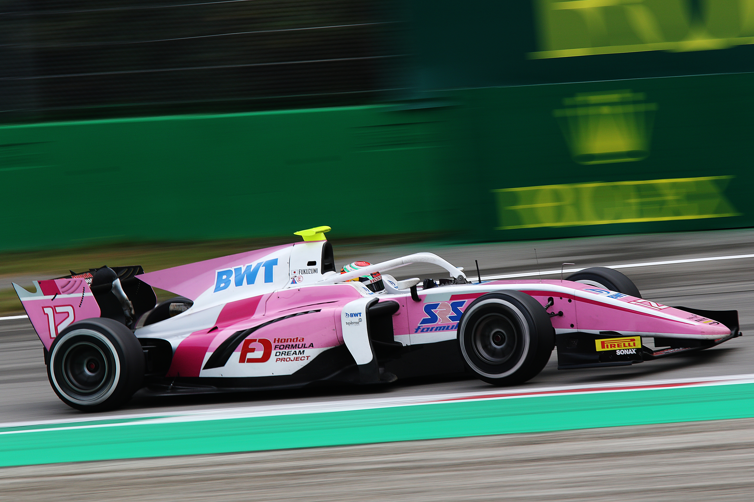 2018 FIA Formula 2 Championship, Autodromo Nazionale Monza.